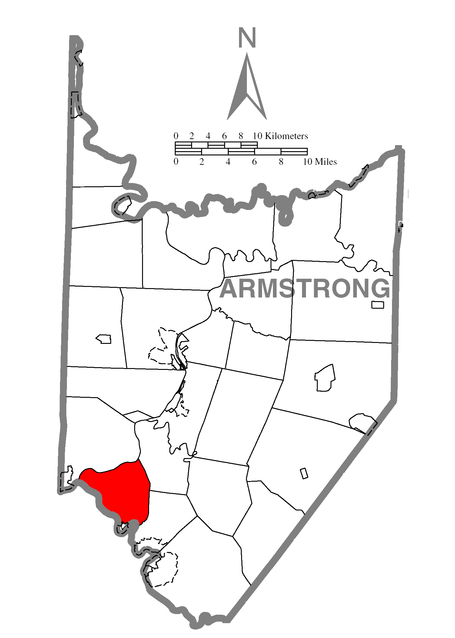 A map of Armstrong County showing Gilpin Township, Pennsylvania (alternate) highlighted on the map.